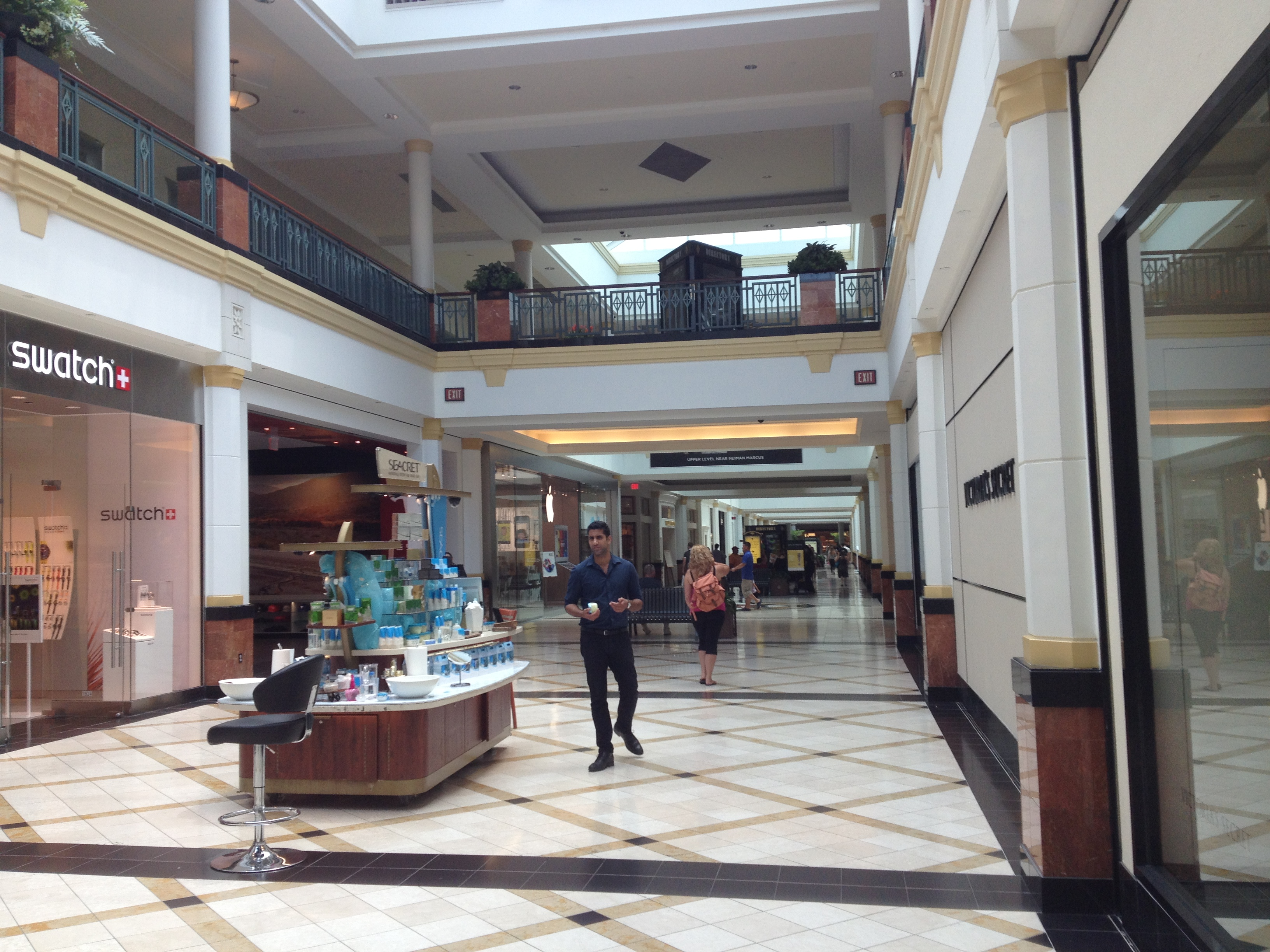 A view of The Plaza at King of Prussia from the first floor.